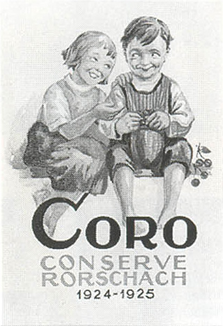 The picture shows a poster of a Conserve which was produced in Rorschach Switzerland in 1923.